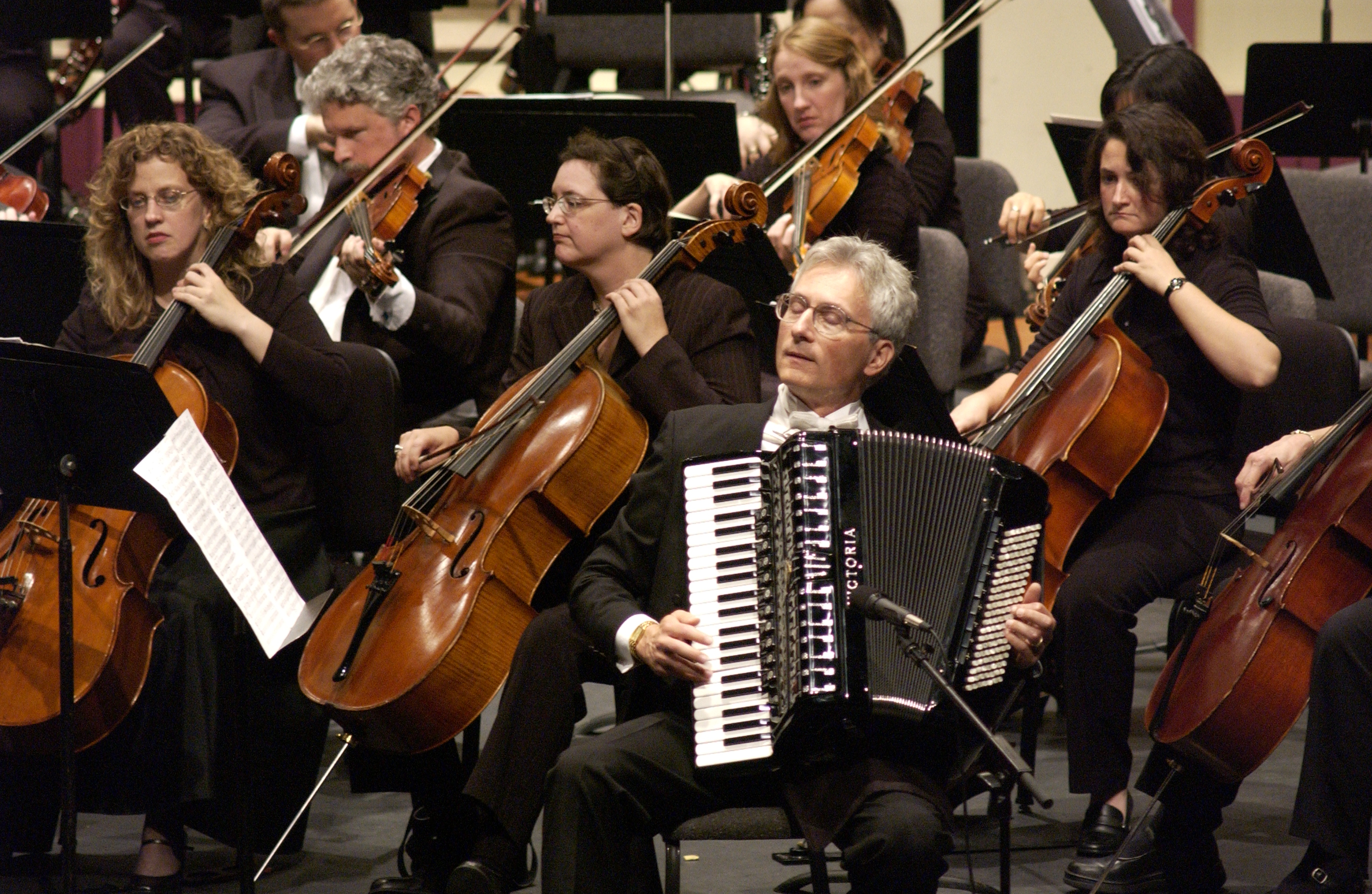 Henry Doktorski performing with the New Philharmonic Orchestra, Glen Ellyn, Illinois, under the direction of conductor Kirk Muspratt, September 19, 2005. Photograph by Rich Malec.